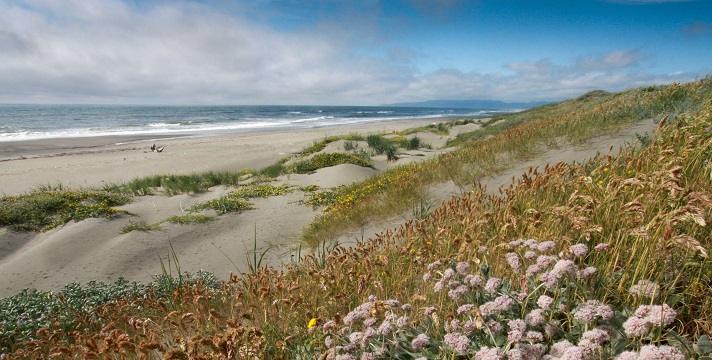 Humboldt Bay National Wildlife Refuge, California. Beach buckwheat (Eriogonum latifolium), beach blue grass (Poa macrantha) and, in the background, native dune grass (Elymus mollis) and yellow sand verbena (Abronia latifolia) on the foredune.